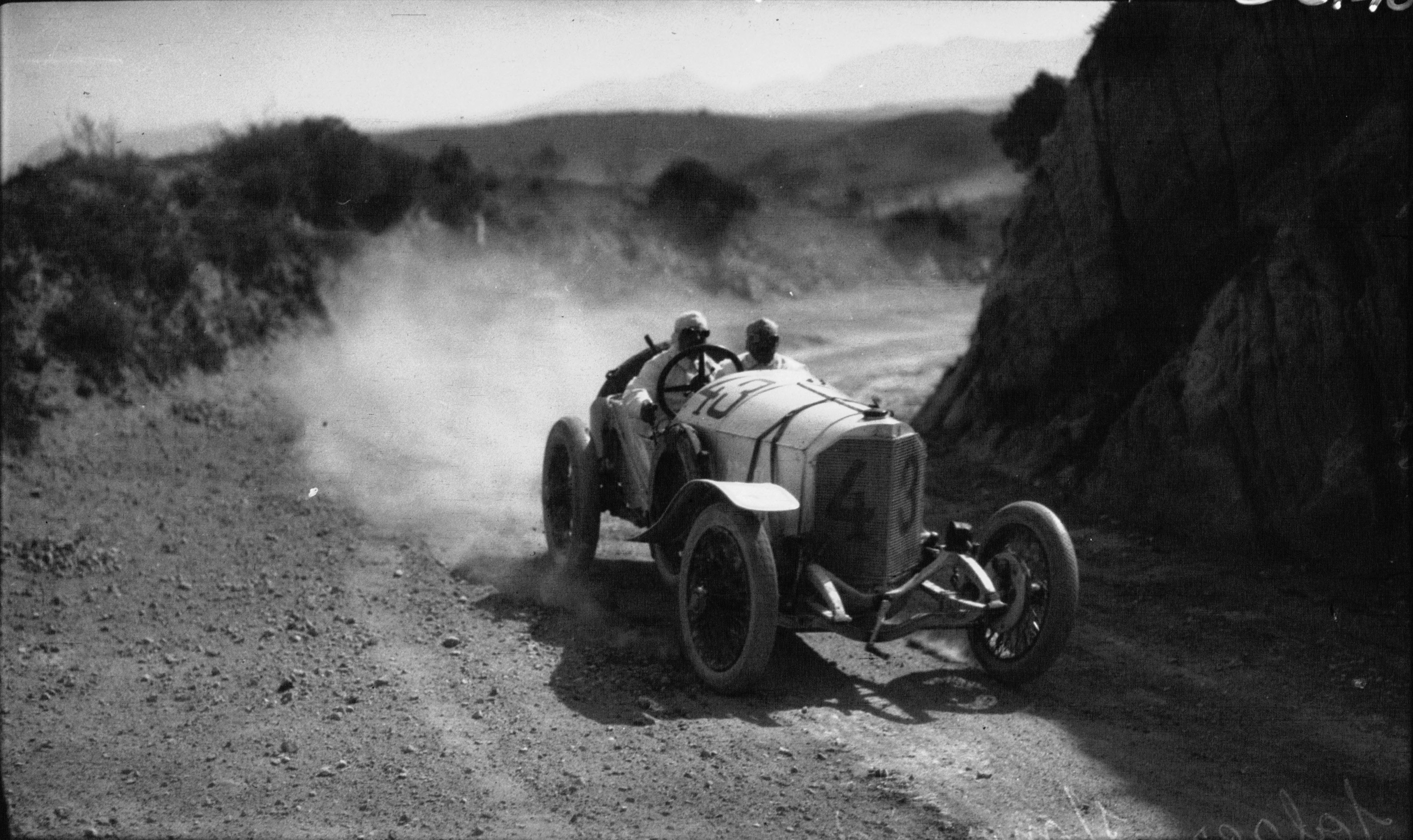 Otto Salzer in his Mercedes at the 1922 Targa Florio.